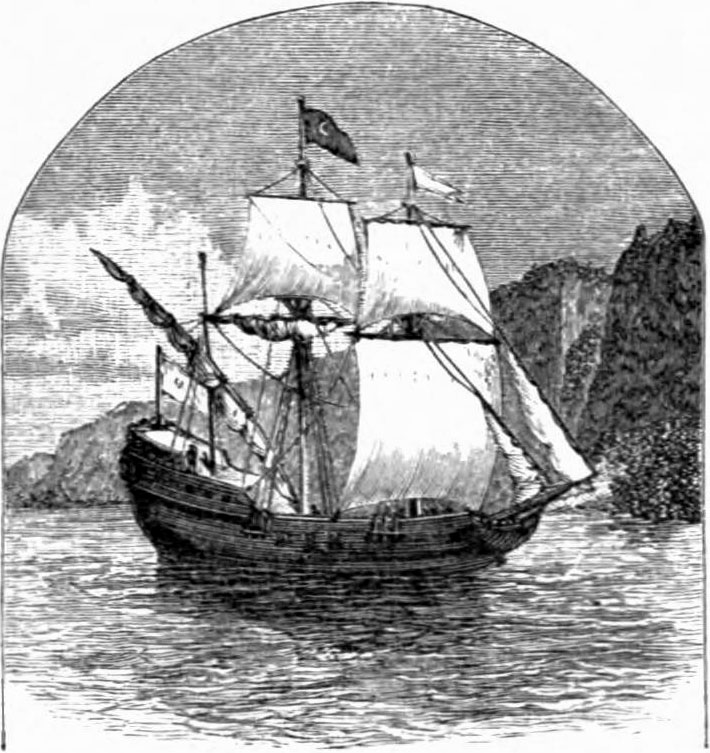 Drawing of Henry Hudson's ship, the Half Moon.